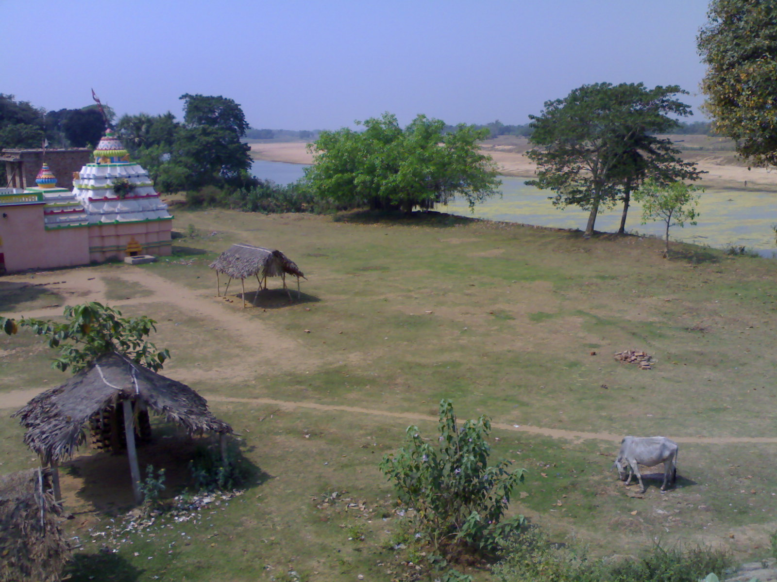 Kalabuda1